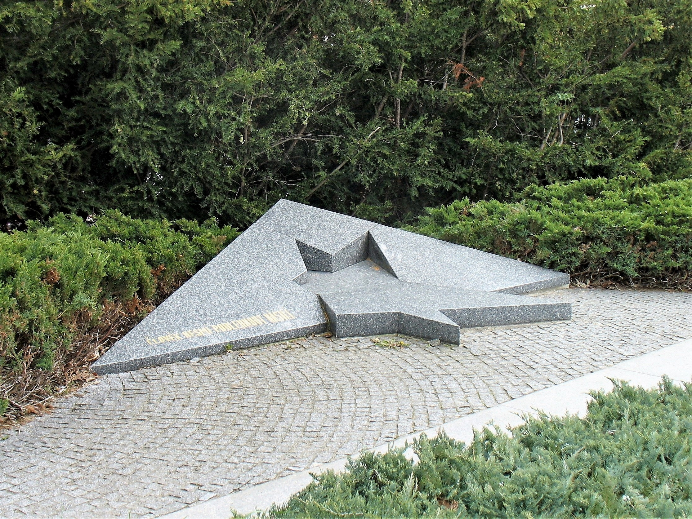 Holocaust memorial in Česká Lípa, Czech Republic